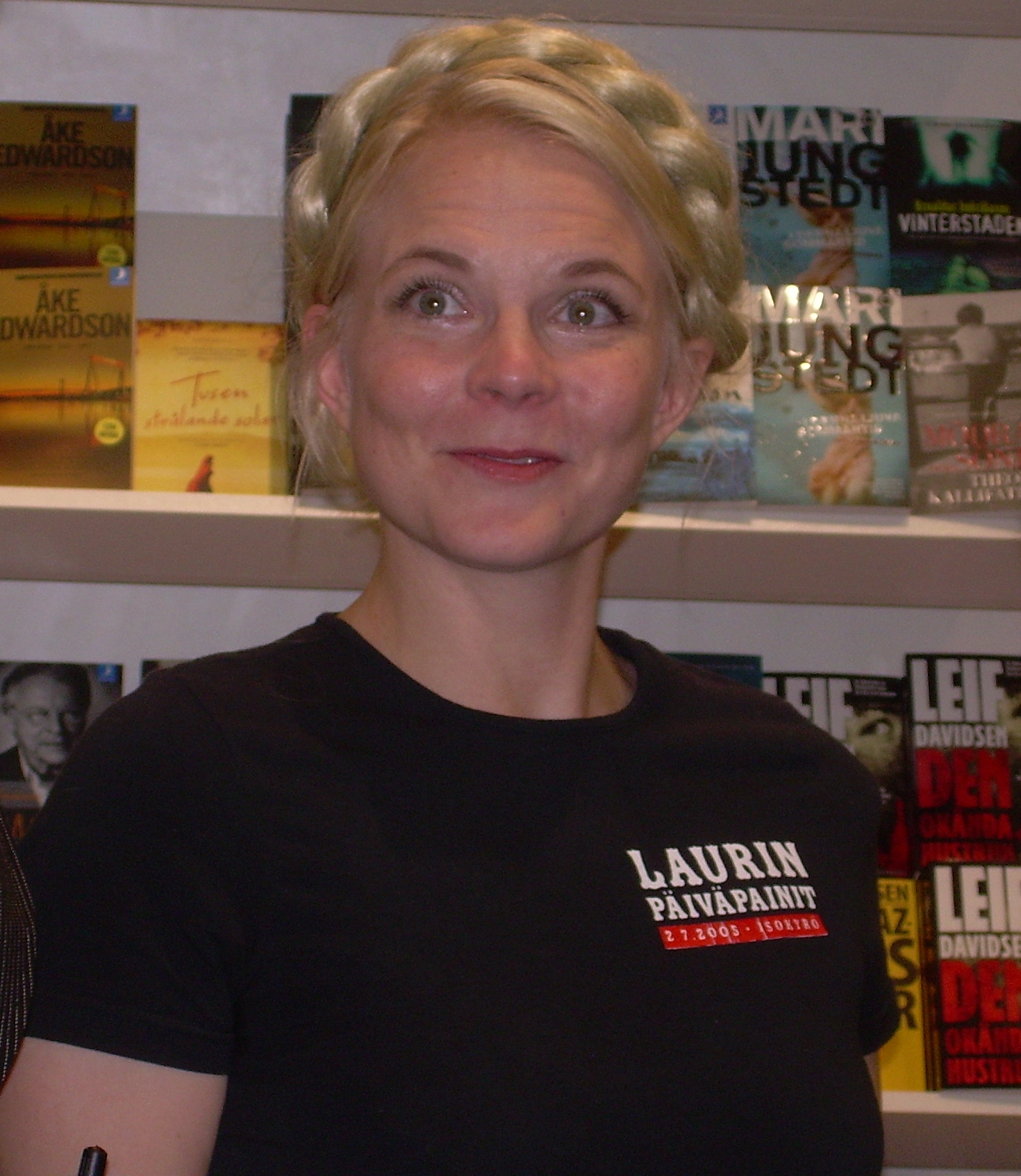 Finnish poet Heli Laaksonen at the Turku International Book Fair.